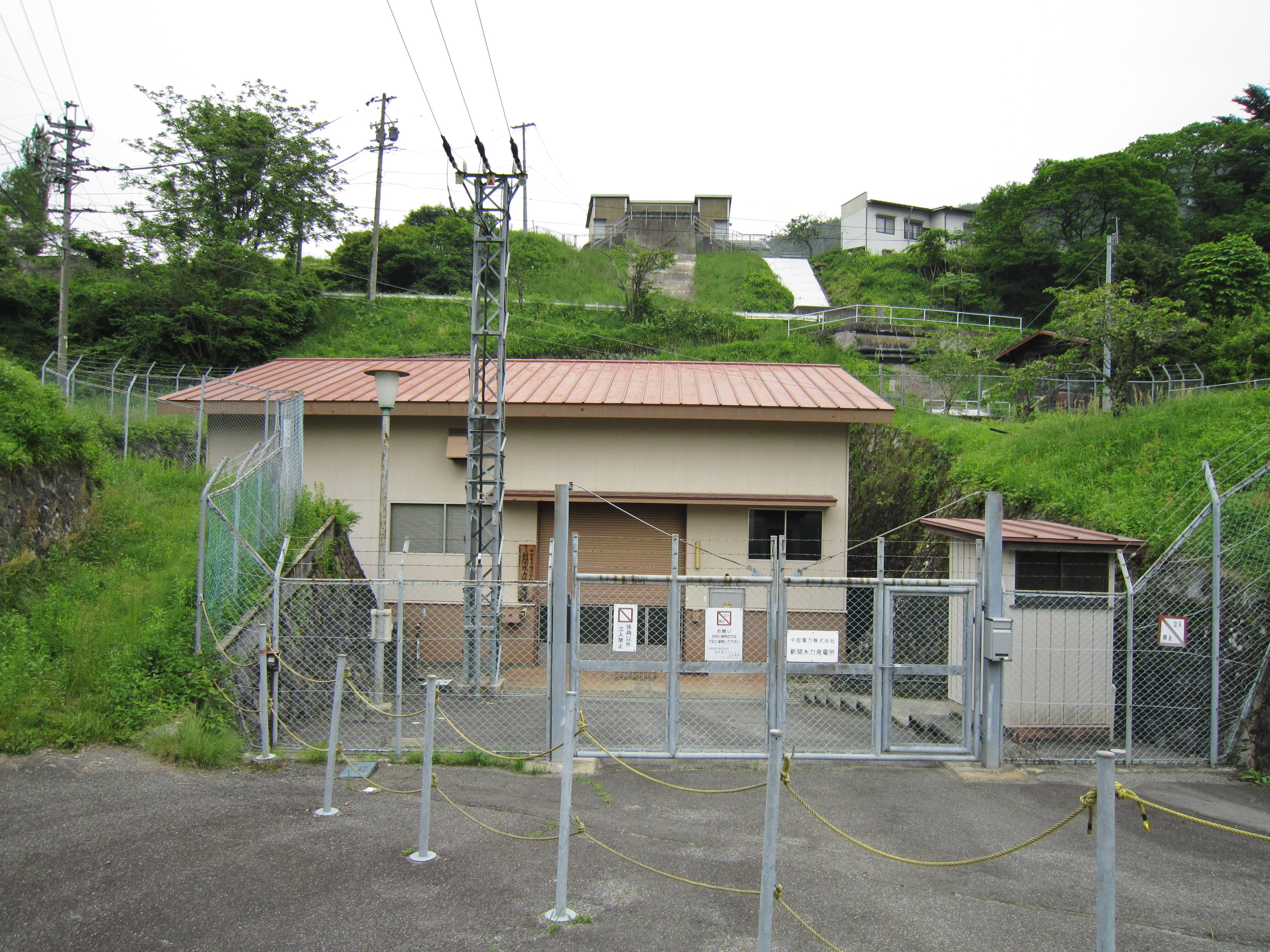 Shinkai power station.